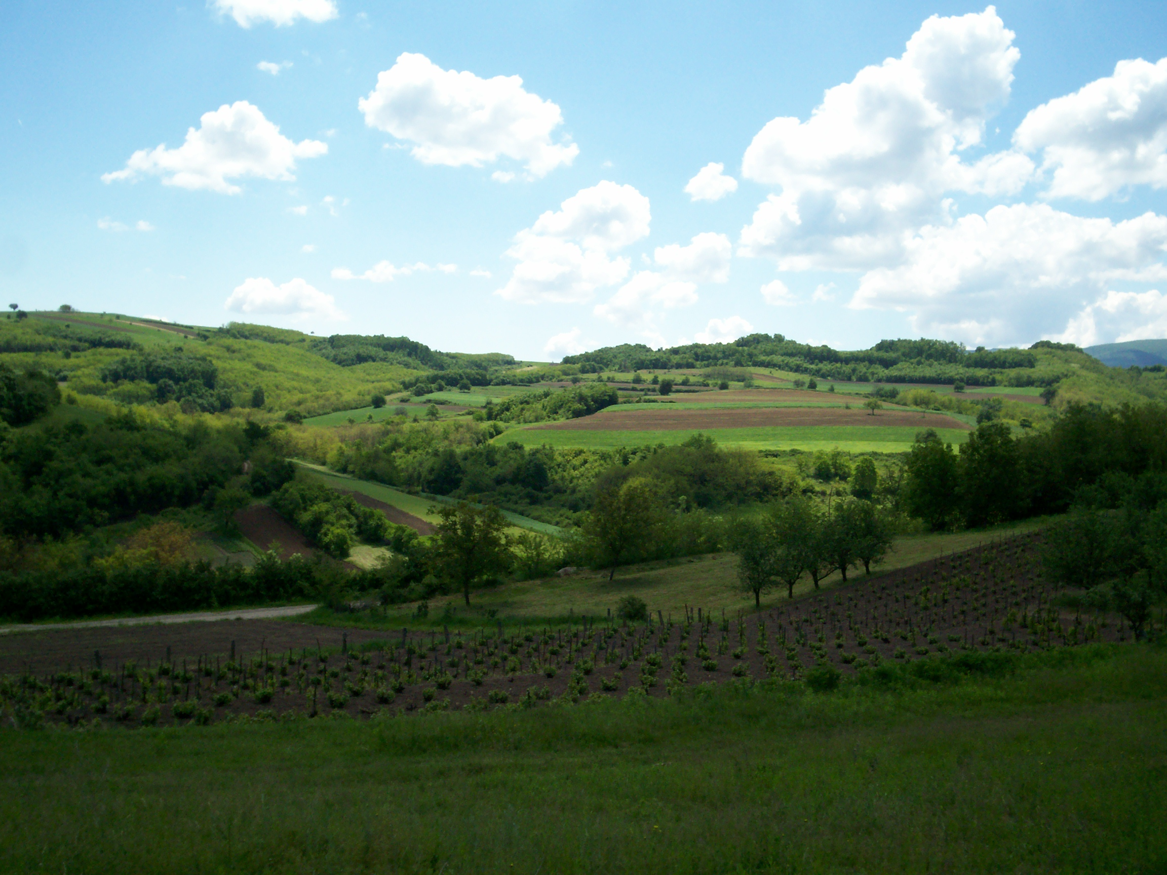 village Gornje Suhotno, Serbia